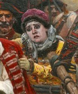 Detail of the painting "Morning of streltsy's beheading" by Vasily Surikov (1881)